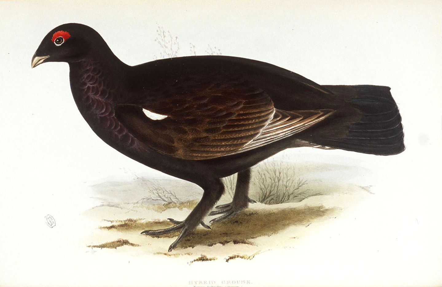 Hybrid Grouse, Lyrurus tetrix × Tetrao urogallus (Sparrm).